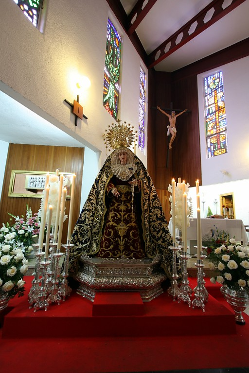 Bendición María Santísima de la Salud